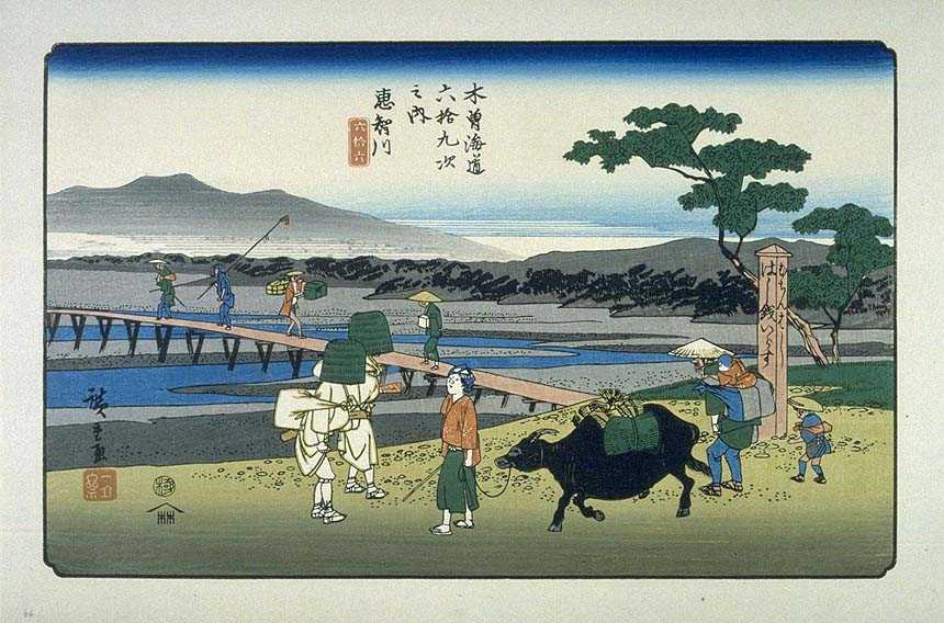 Echigawa on the Kisokaido, ukiyo-e prints by Hiroshige